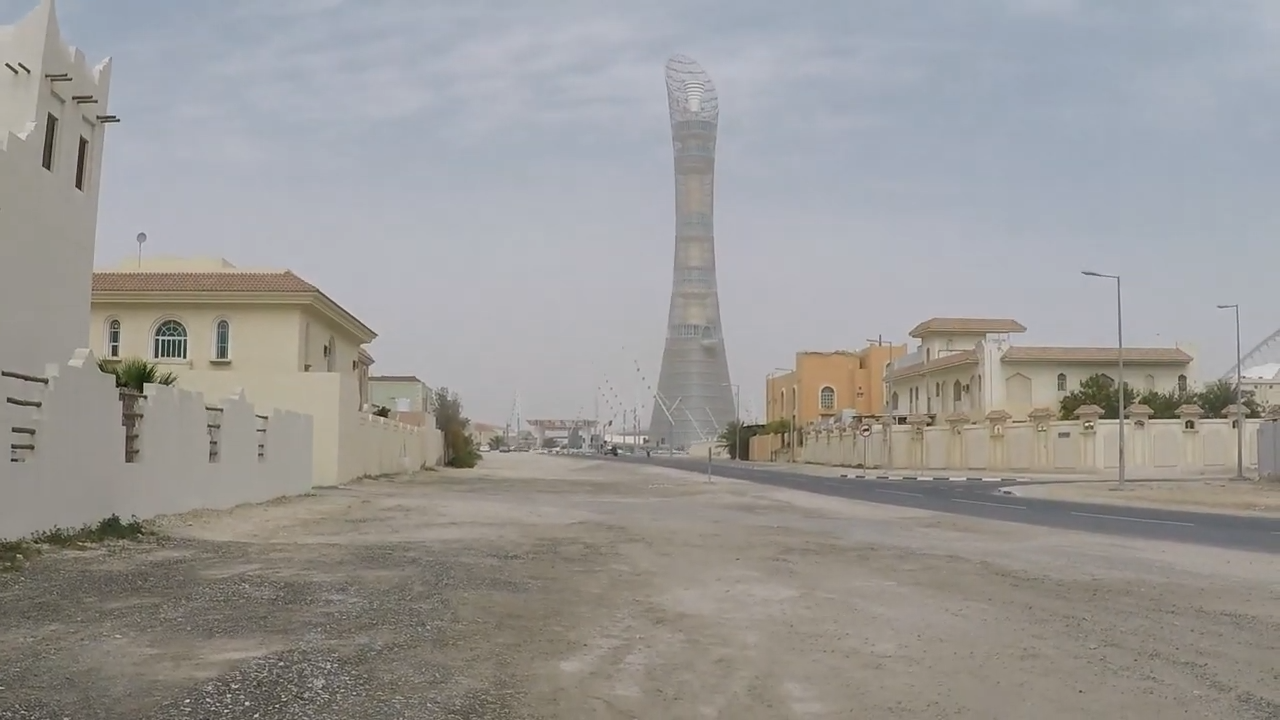 Al Awali Street in the Al Aziziya district of Al Rayyan, Qatar.